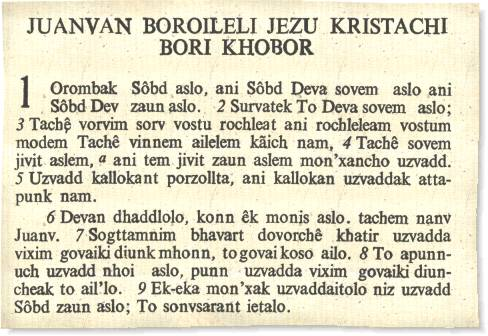 The first few verses from John's Gospel in the Roman Catholic version. This page is taken from a New Testament first published in 1975 by Xaverian Press, Goa.